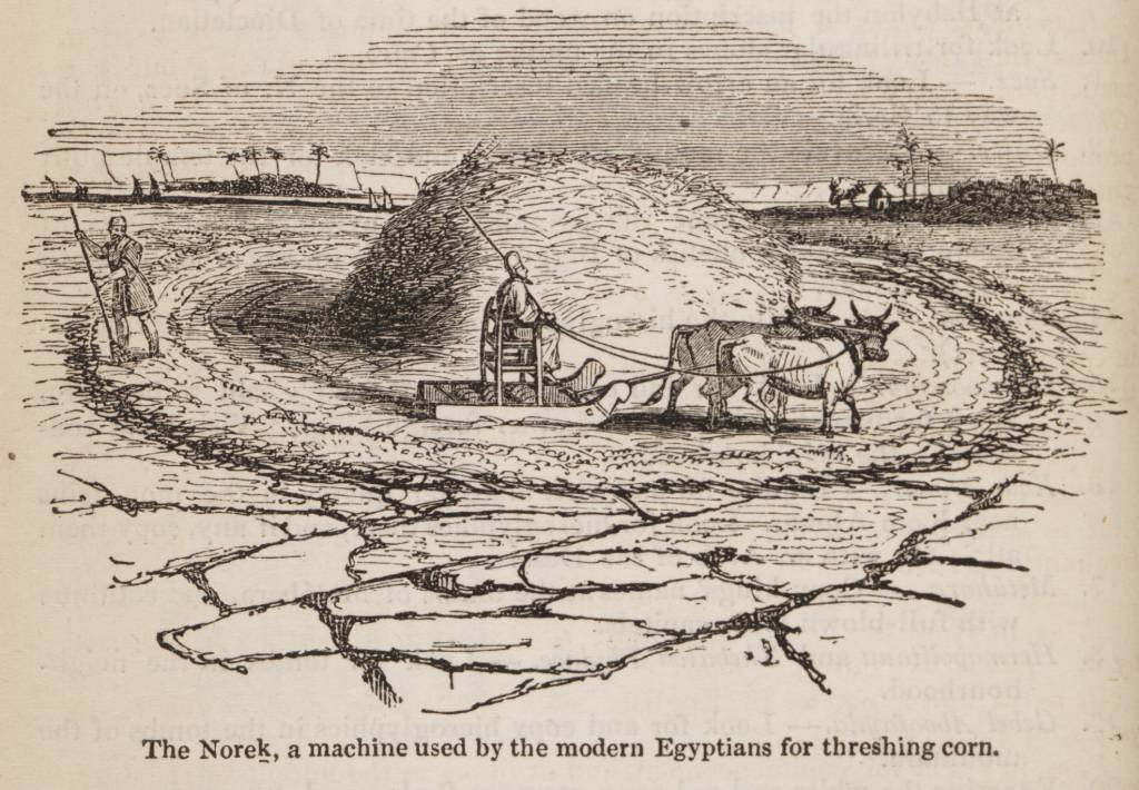 An illustration of a man riding a threshing sledge pulled by oxen